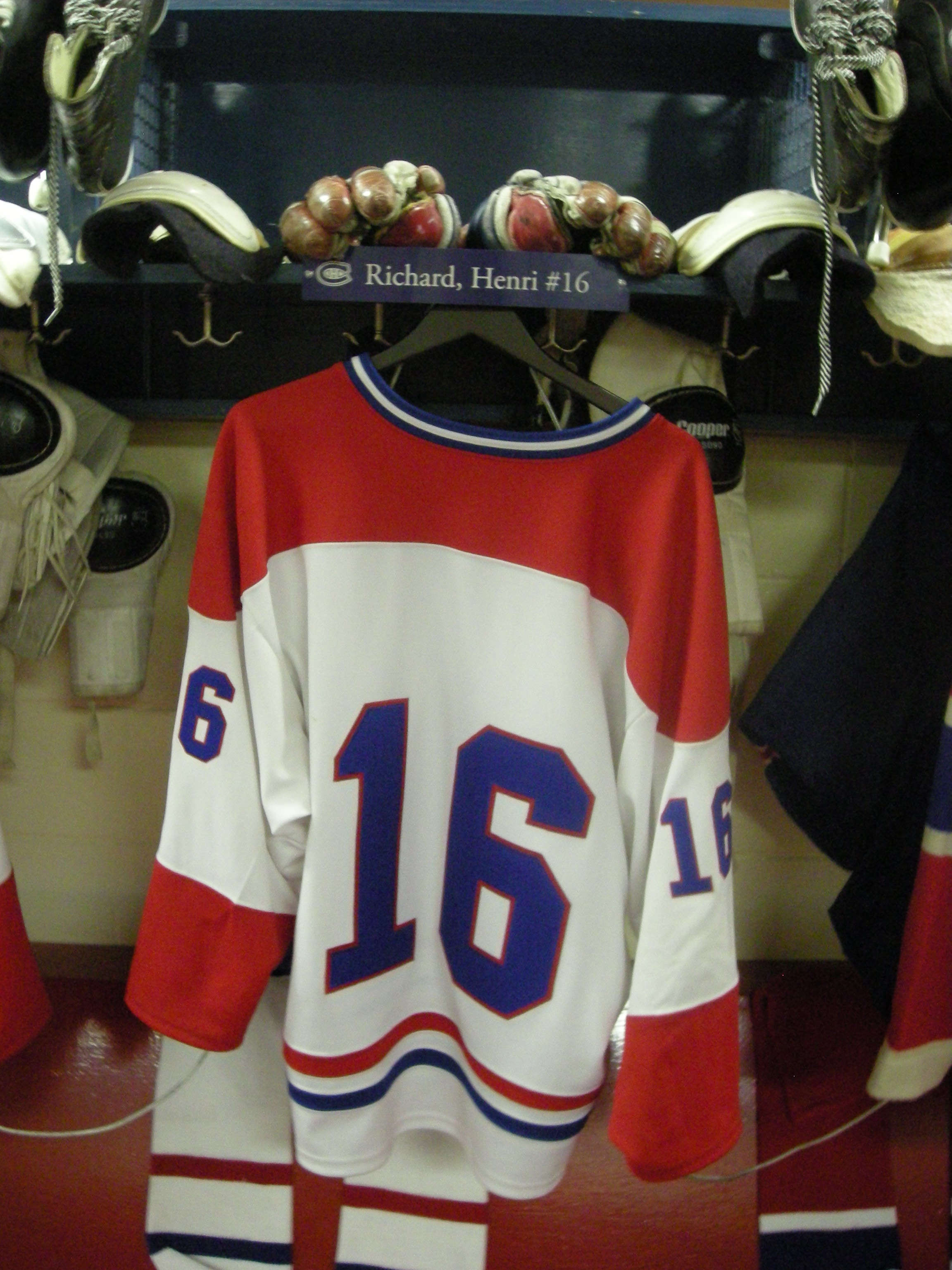 Henri Richard's jersey in the replica of the Montreal Canadiens dressing room at the Hockey Hall of Fame in Toronto, Ontario (Canada).